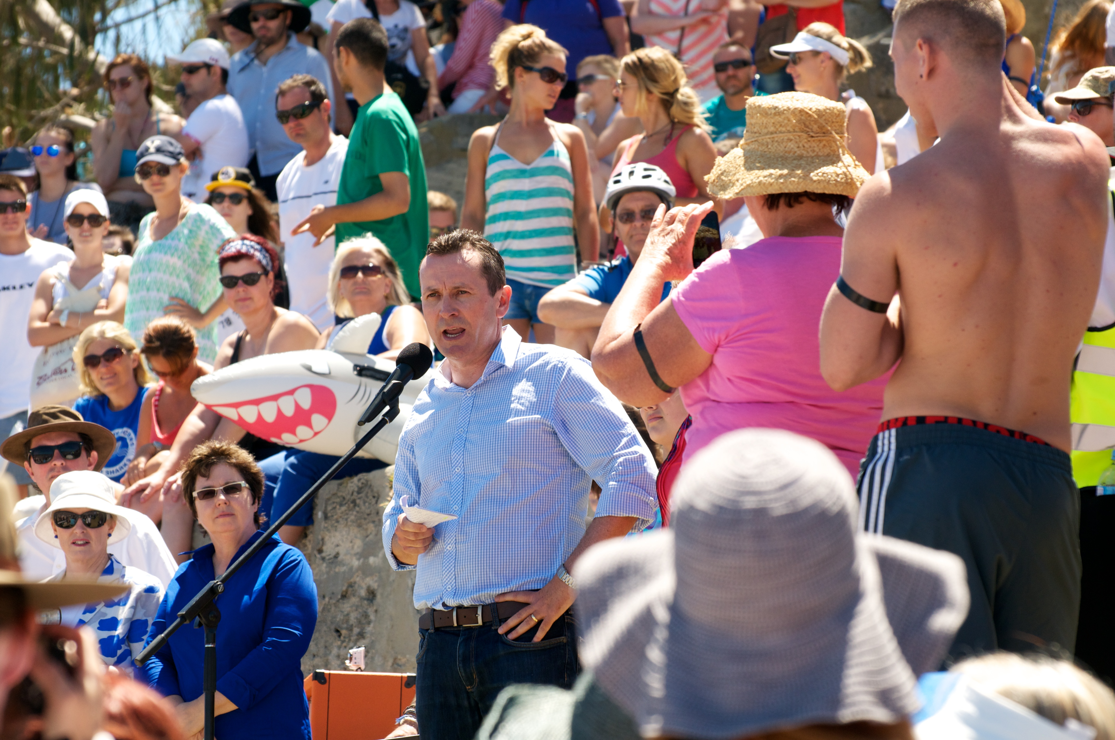 Mark McGowan